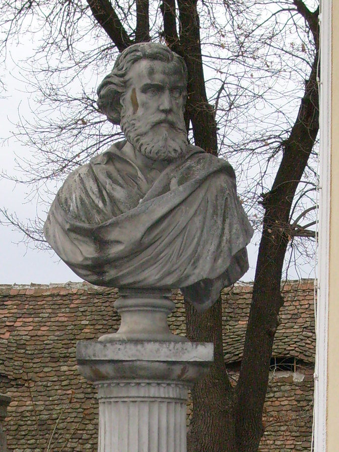 Funeral monument of Alexandru Papiu Ilarian.